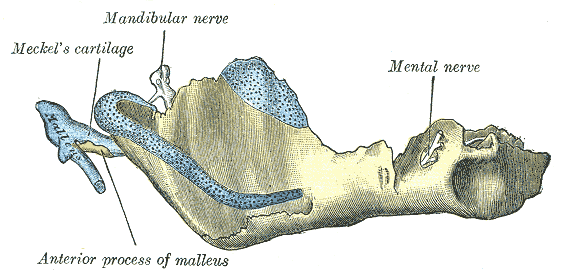 Mandible of human embryo 95 mm. long. Outer aspect. Nuclei of cartilage stippled. (From model by Low.)